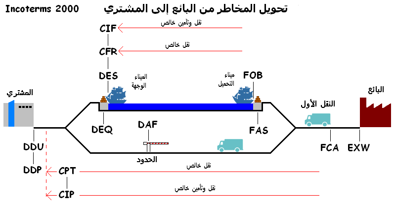 Incoterms - Transfer of risk from the seller to the buyer